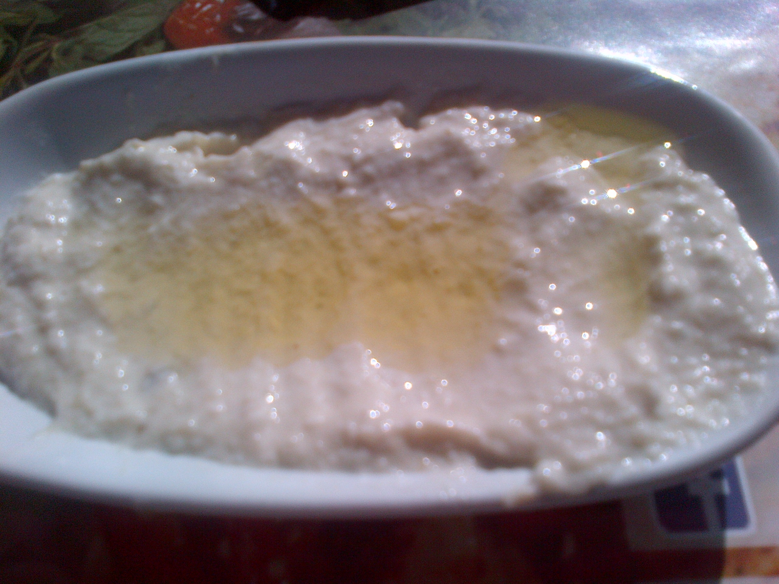 Tarator in Ankara